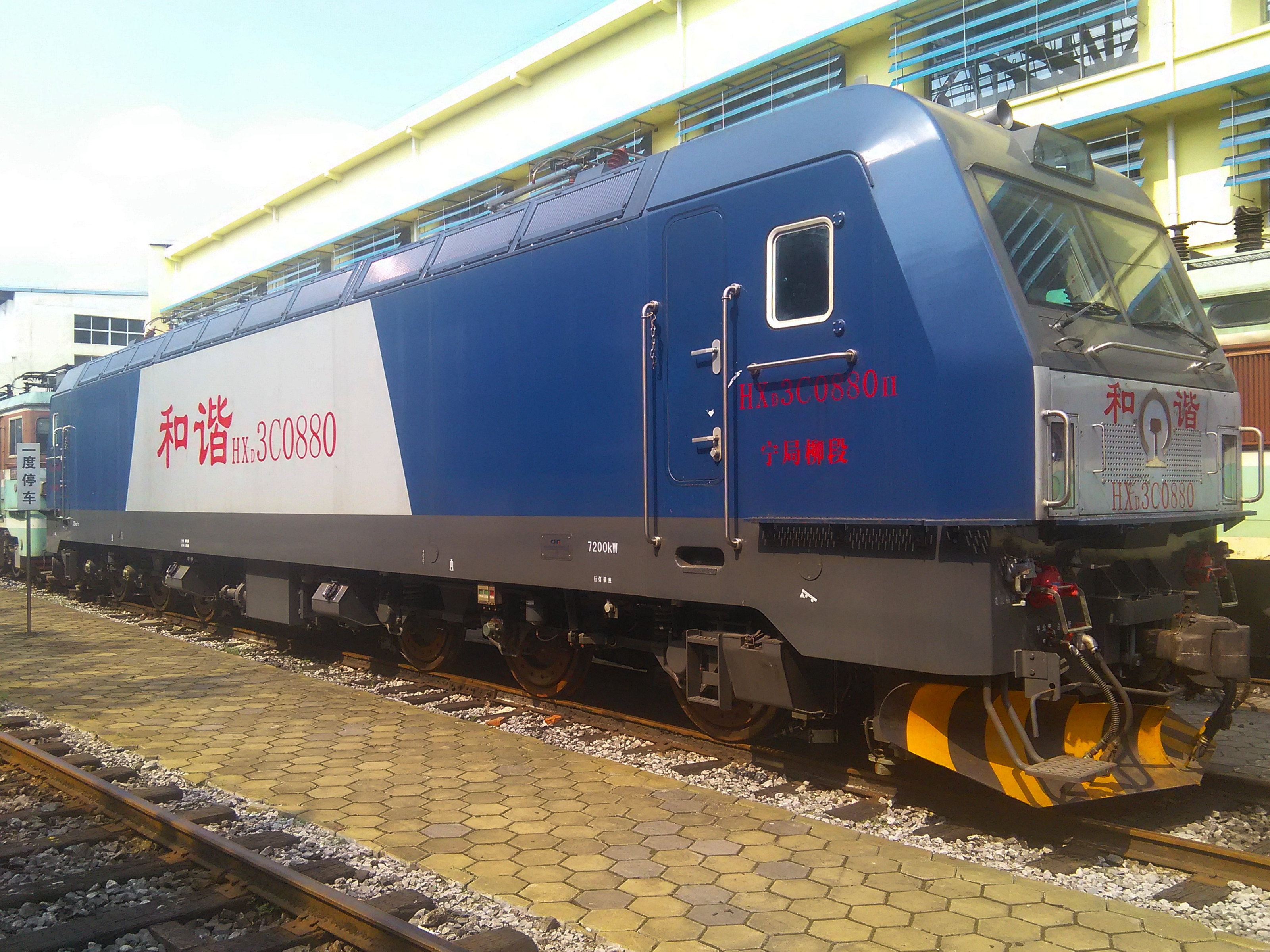 China Railways HXD3C 0880 in Liuzhou Locomotive Depot.